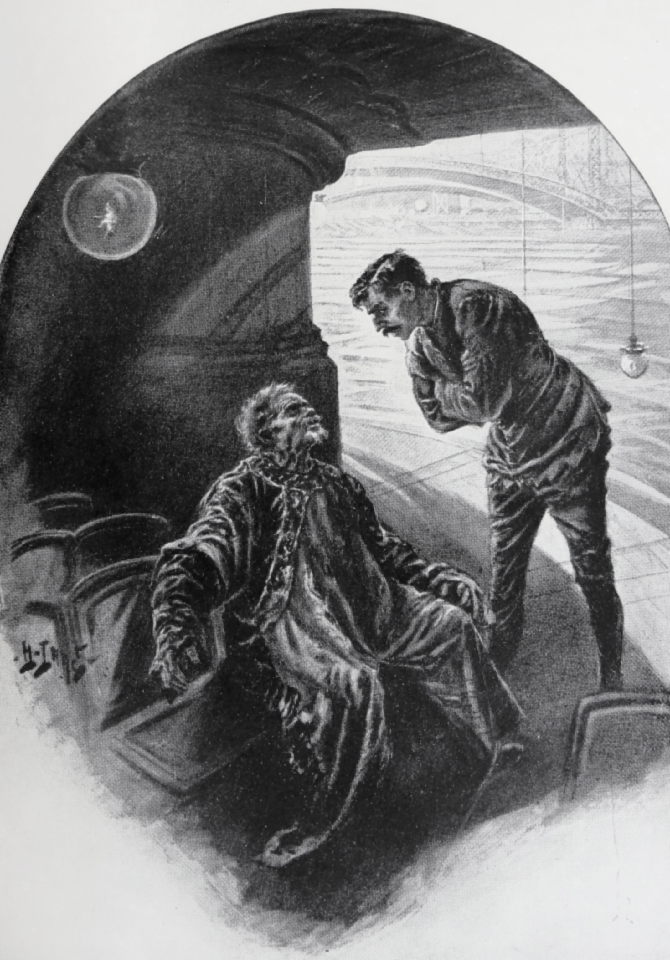 "Graham gets a history lesson from the old man." Art by H. Lanos for "When the Sleeper Wakes" by H. G. Wells (1899)